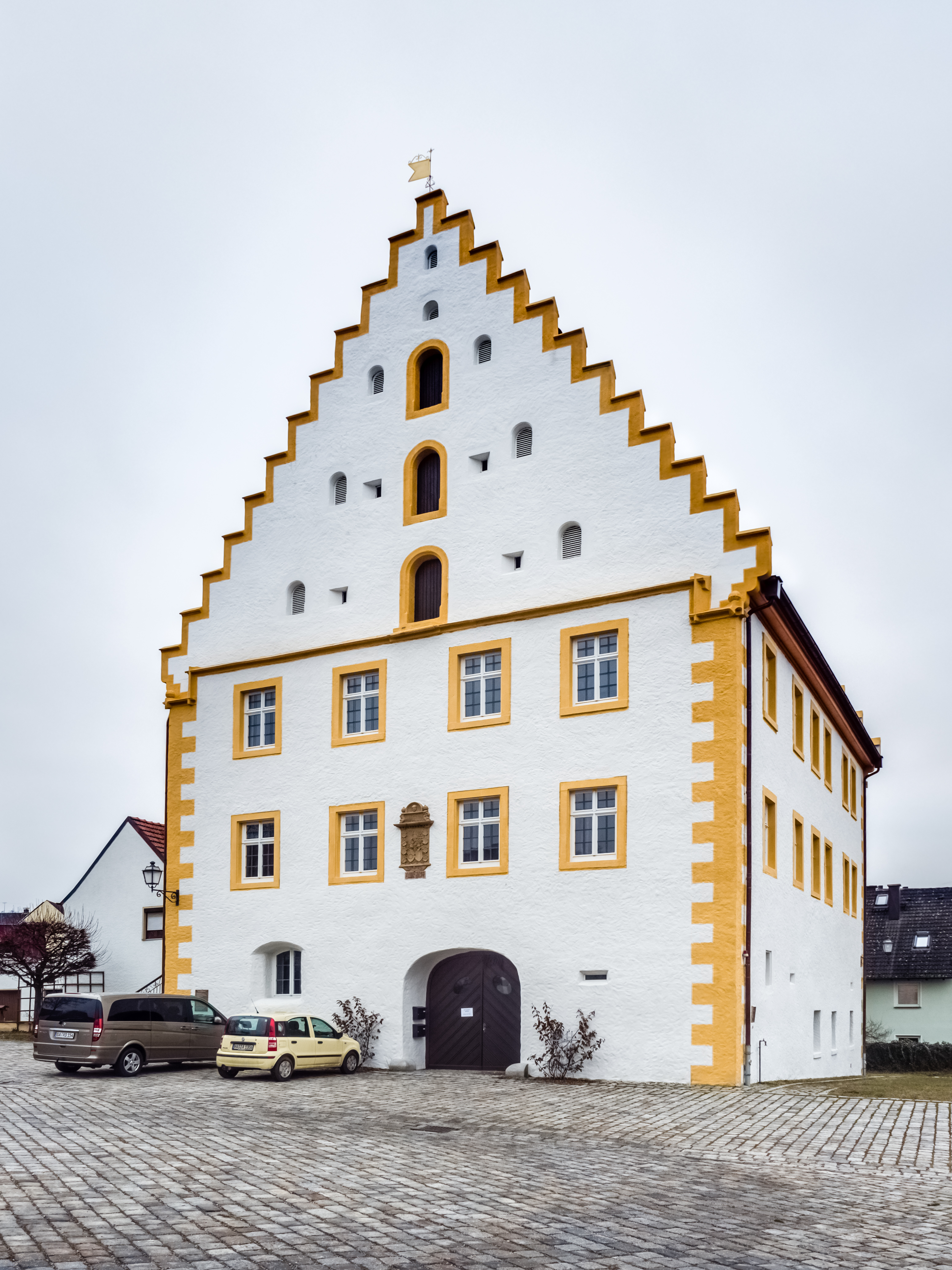 Former castle in Trunstadt